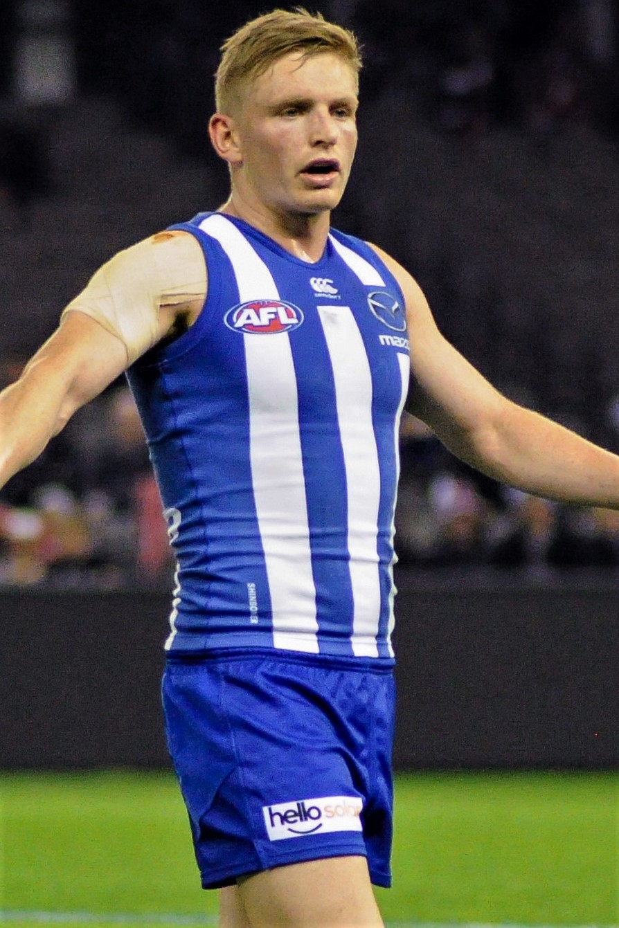 Jack Ziebell during the AFL round thirteen match between North Melbourne and St Kilda on 16 June 2017 at Etihad Stadium in Melbourne, Victoria.